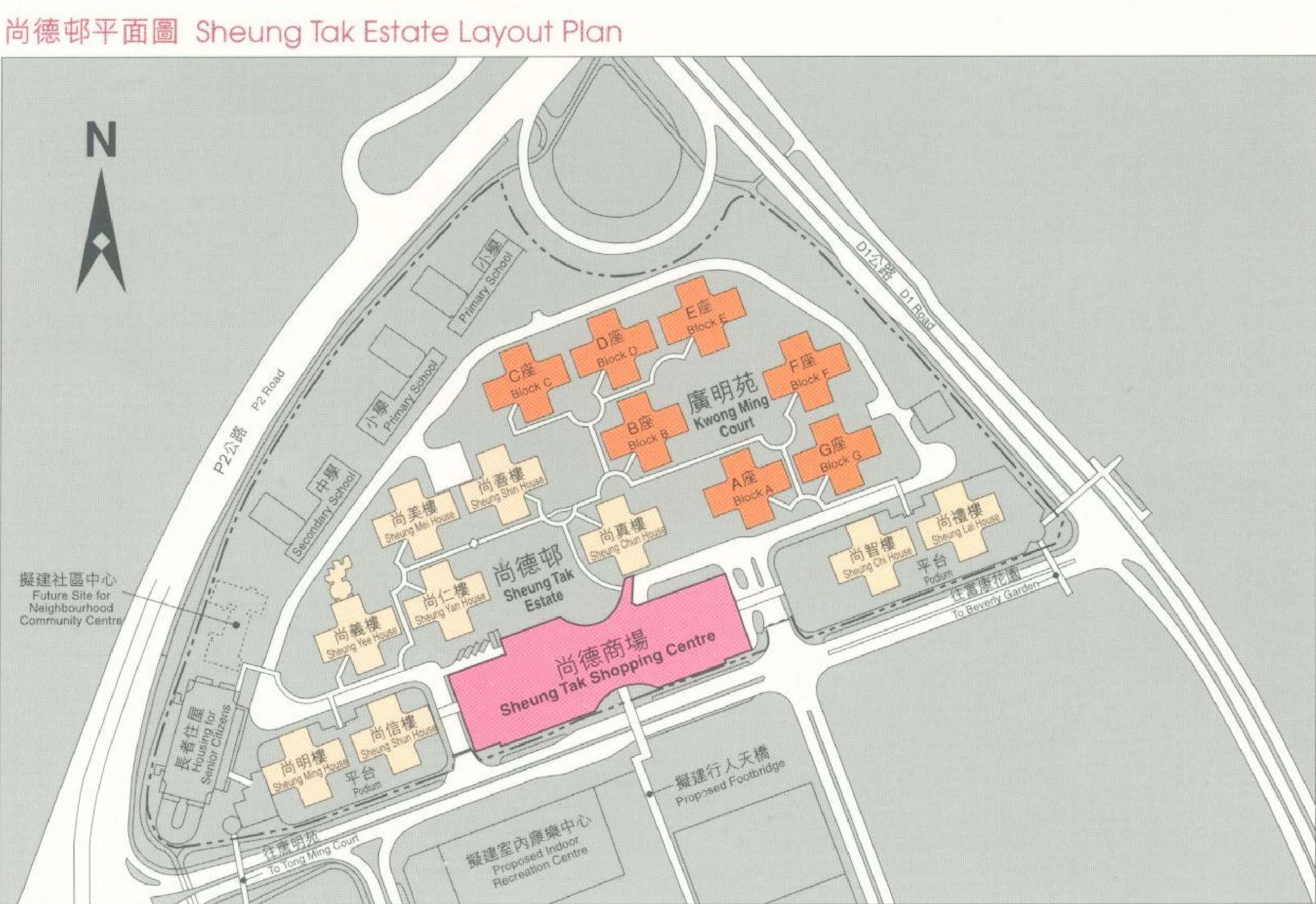 Sheung Tak Estate Layout Plan (Original planning) From Brochure of Sheung Tak Shopping Centre, Hong Kong Housing Authority